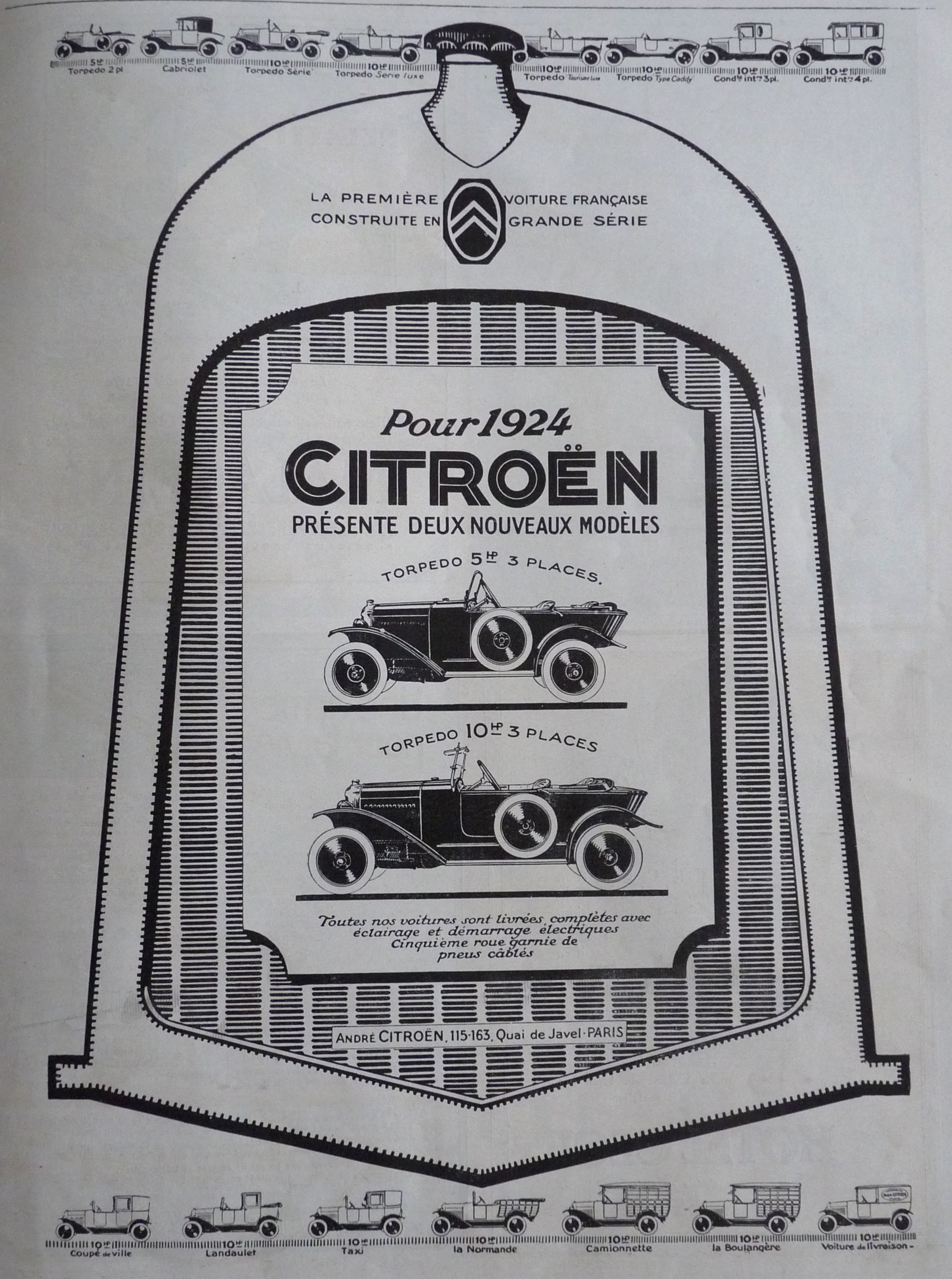 Citroën advertisement of 1923